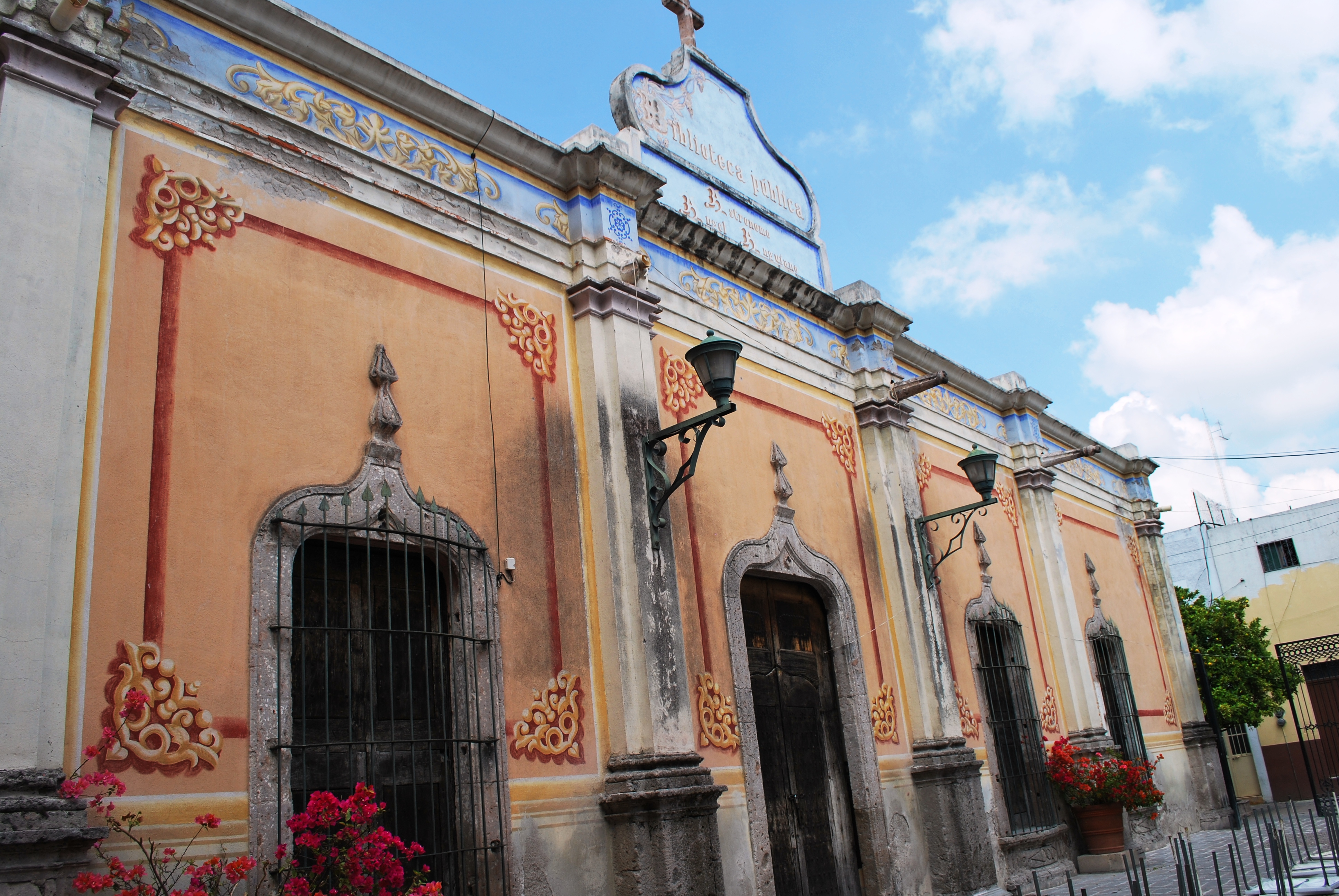 Facade of the main library of Encarnacion de Diaz, Jalisco